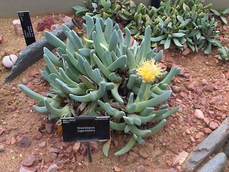 Cheiridopsis namaquensis at Kew Gardens, England.